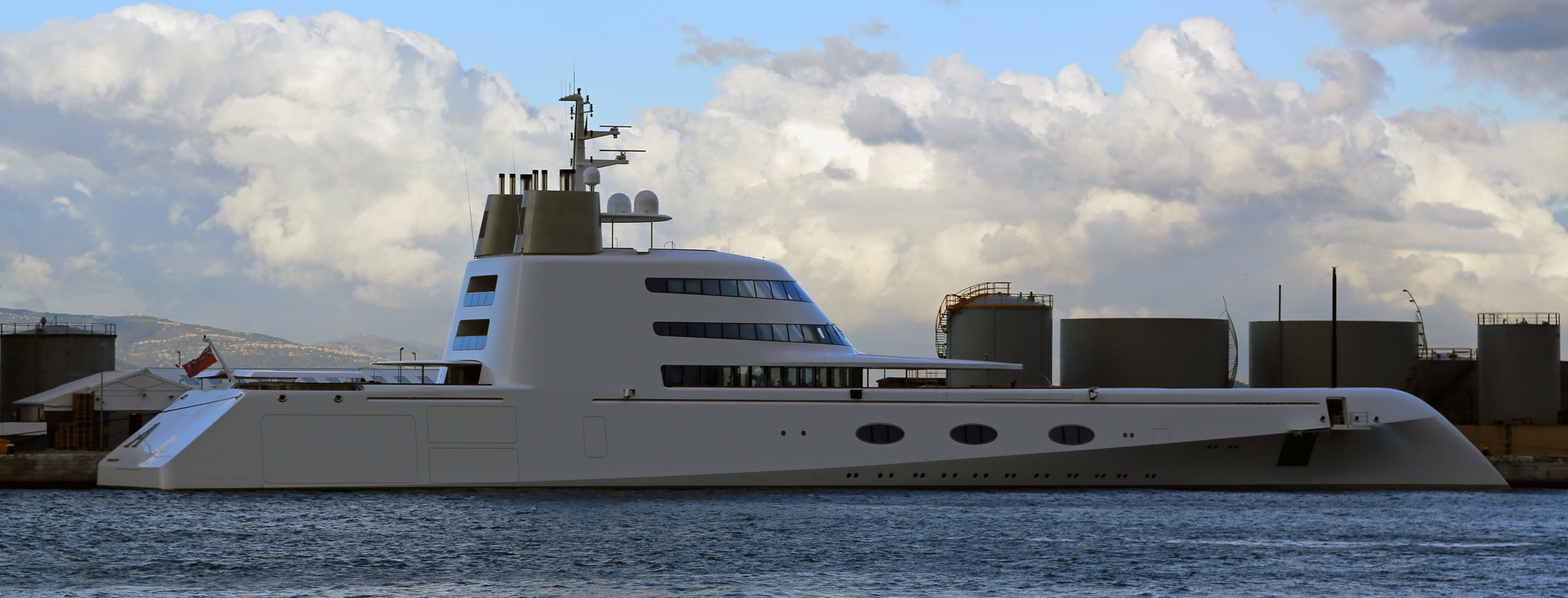 Superyacht M/Y "A" is a 119m superyacht designed by Philippe Starck and Martin Francis and constructed by Blohm & Voss at the HDW shipyard in Kiel, Germany. Built for Andrey Melnichenko the yacht is picture at the North Mole in Gibraltar.